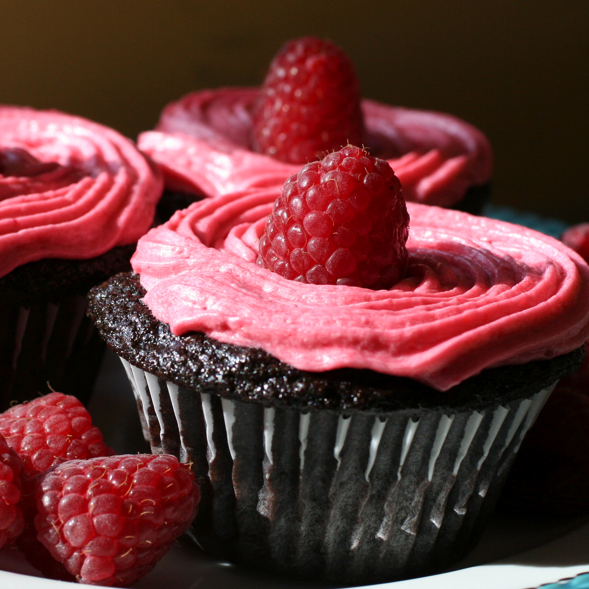 Chocolate Cupcakes with Raspberry Buttercream - recipe